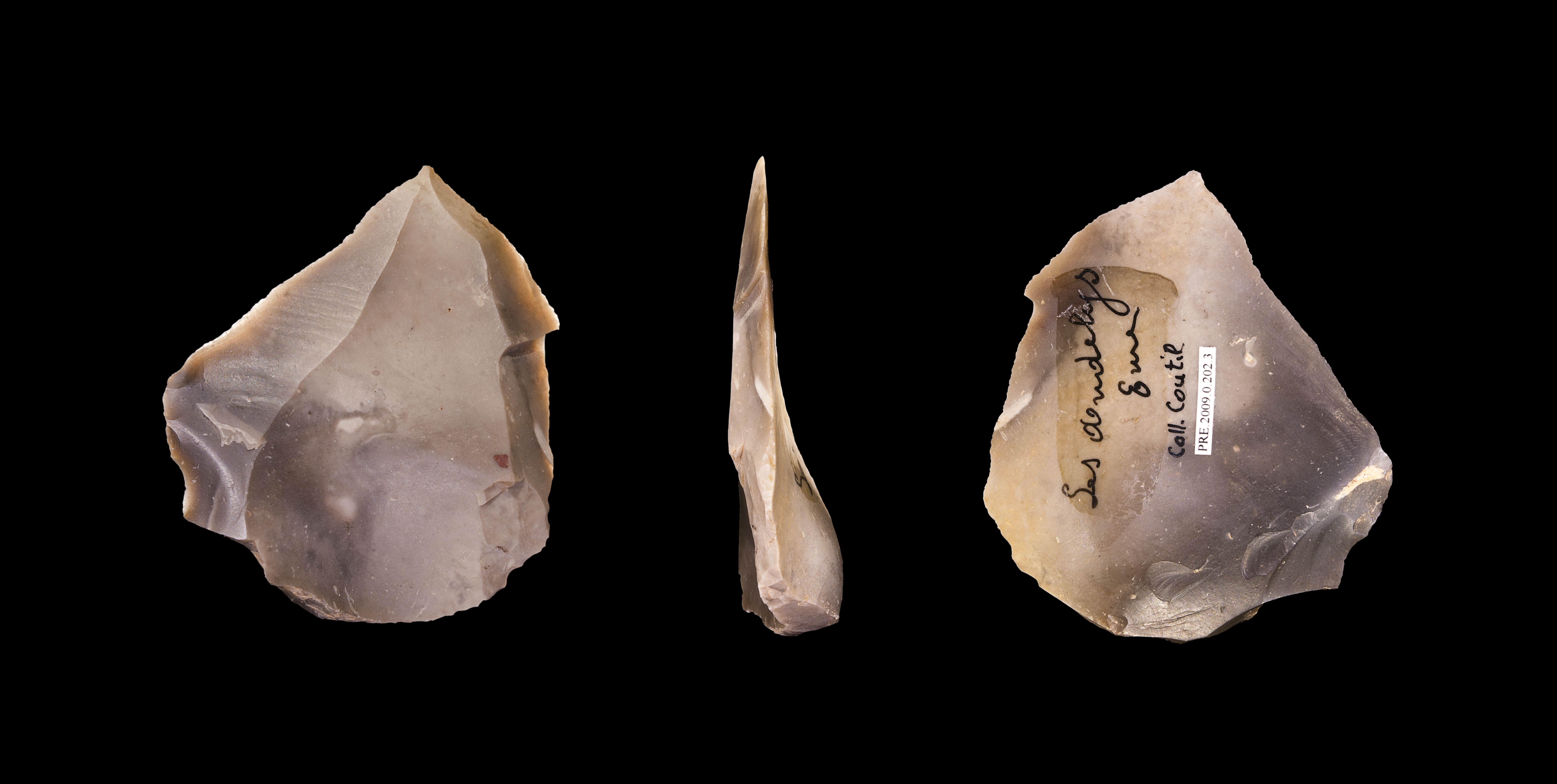 Eclat Levallois - Different views of the same specimen.